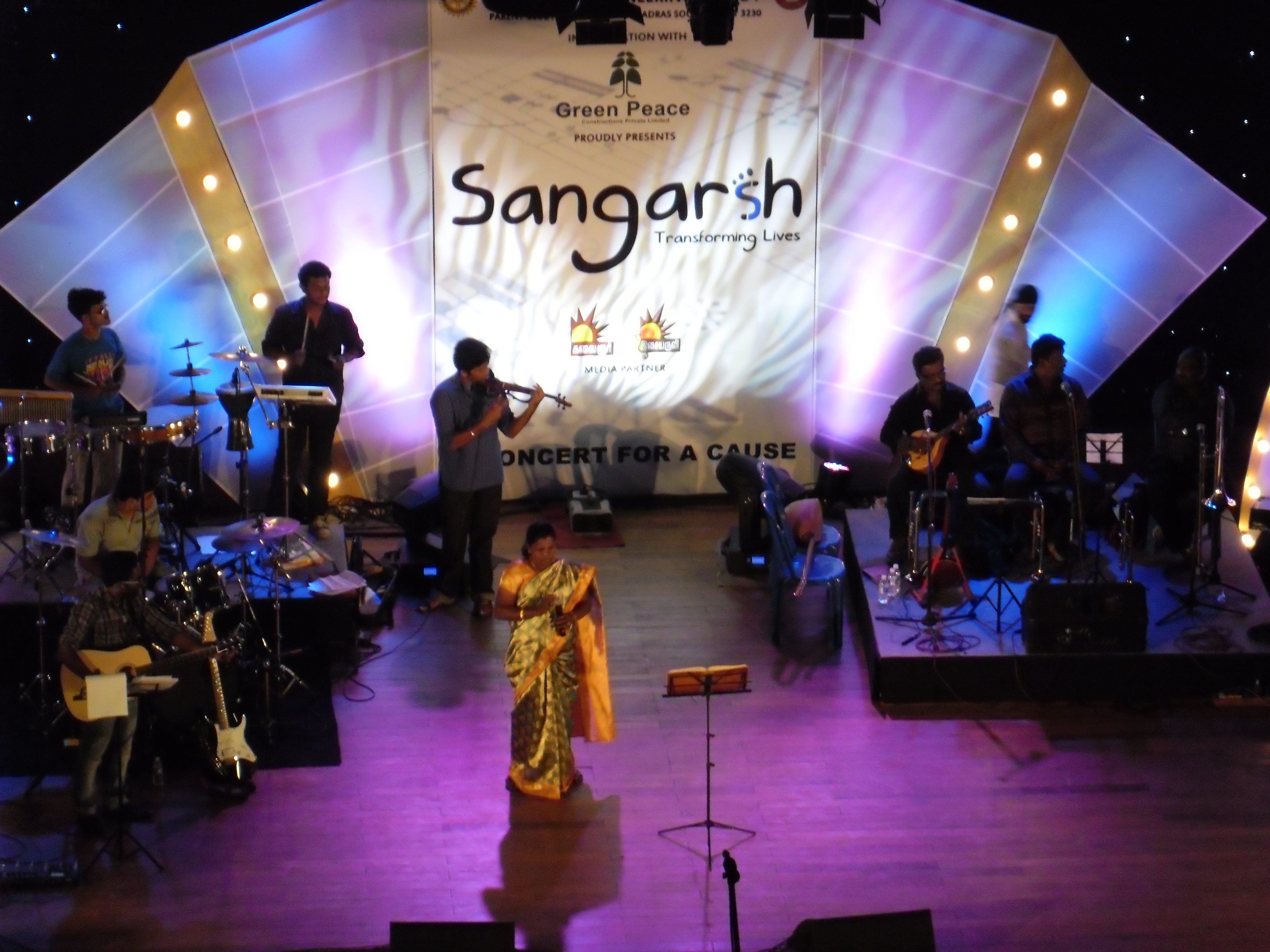 singer Thanjai Selvi performing in Sangarsh